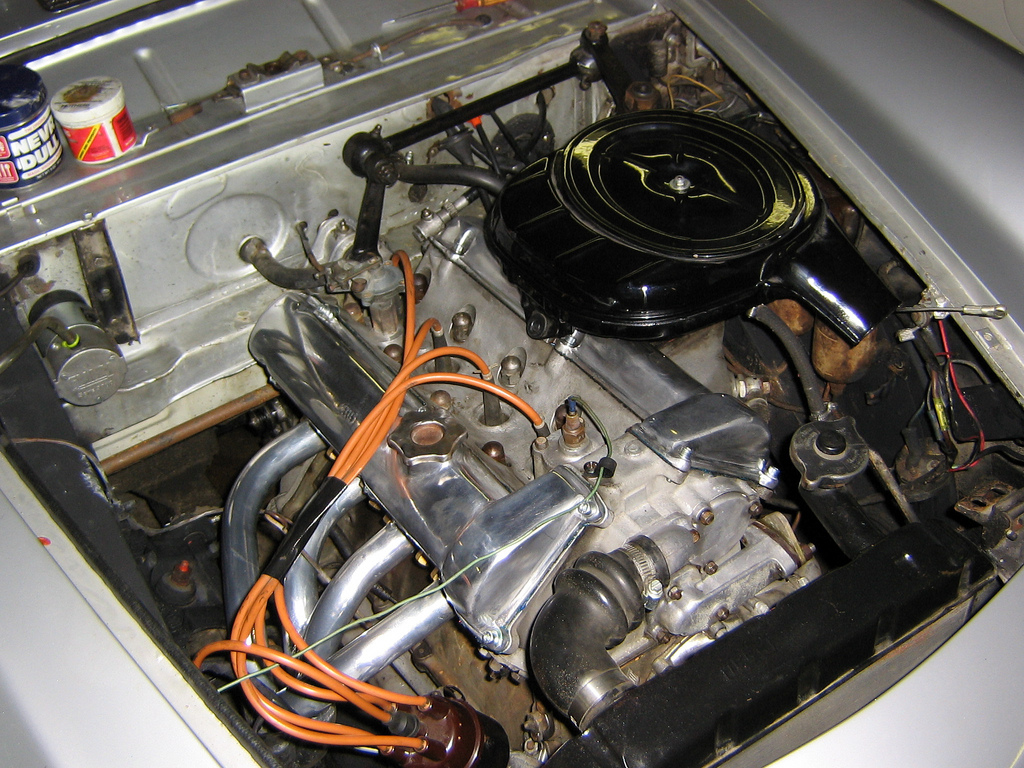 1959-1962 Fiat 1500 S OSCA engine, a twin cam 1,491cc inline-four